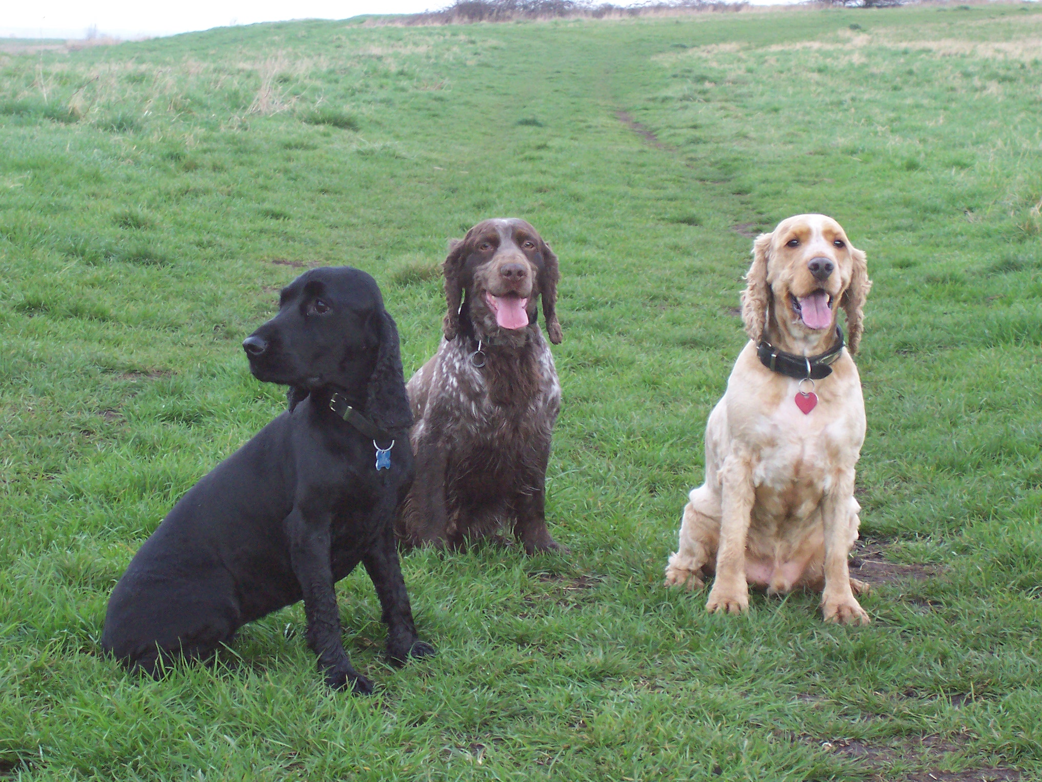 From Flickr: She's got her own agenda